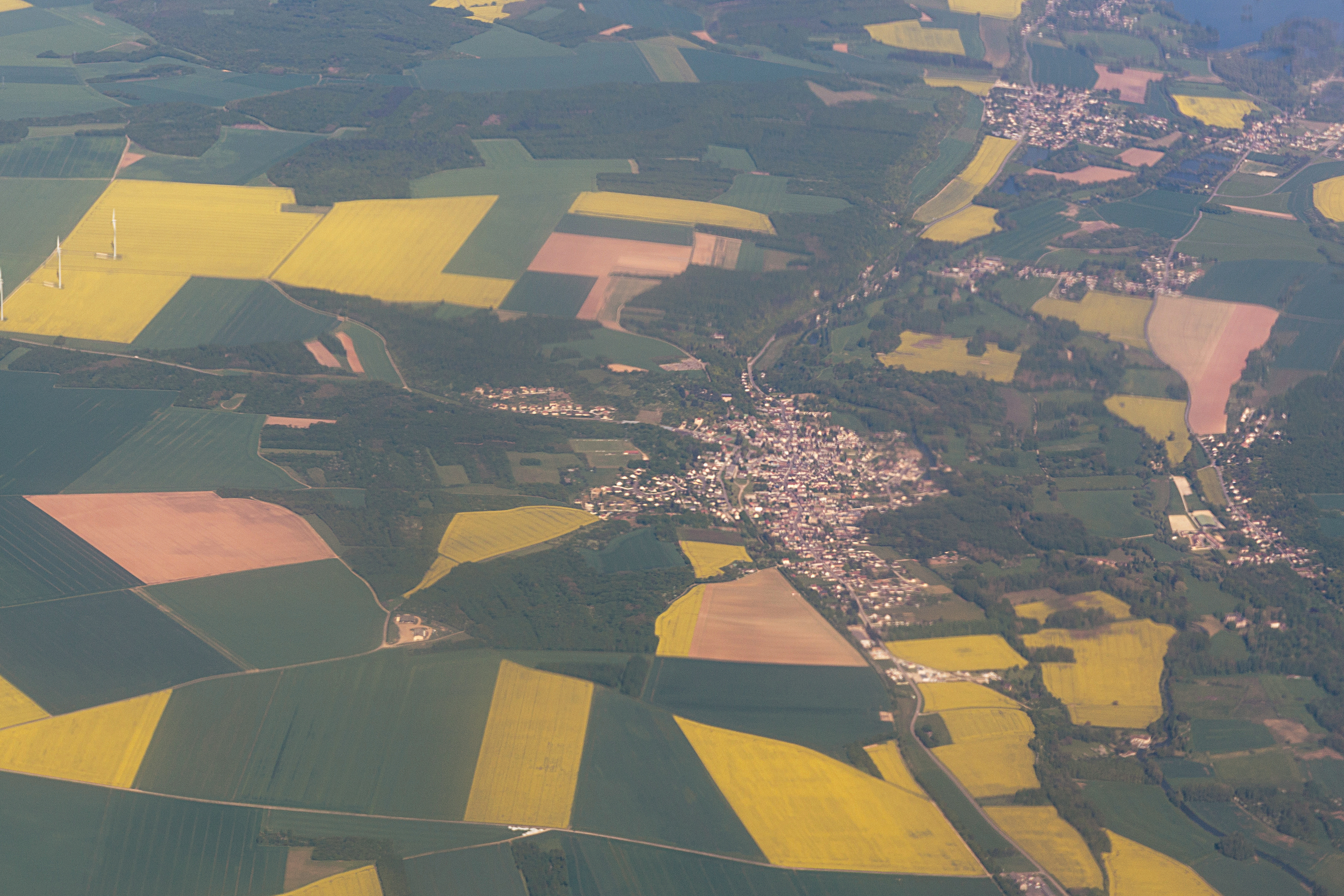 Aerial view of Nogent-le-Roi during a flight between RNS and CDG.